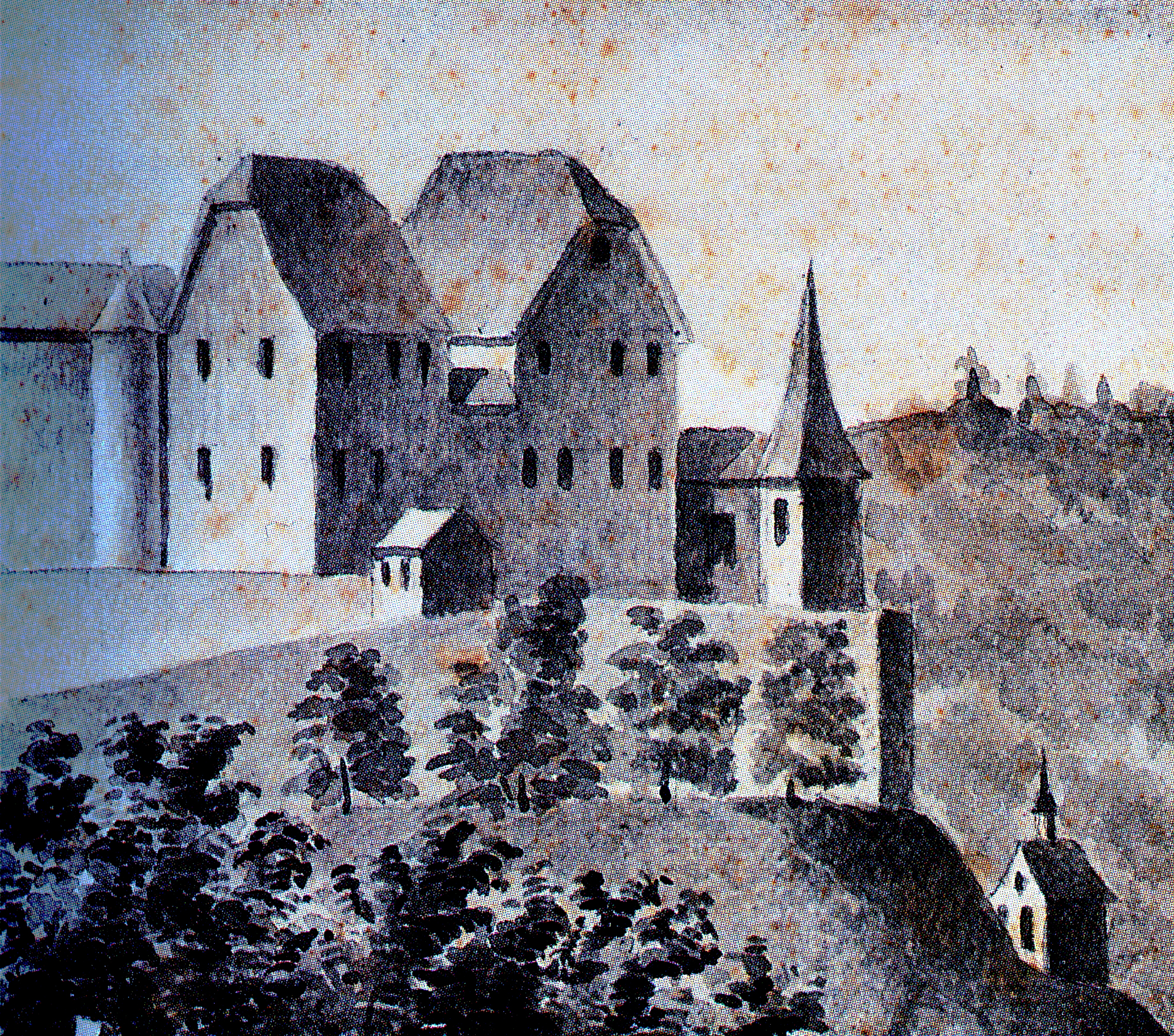 Burg Leofels (Ruppertshofen (Ilshofen)), erbaut vor 1250, erweitert 15. Jhdt. unter den Herren von Vellberg, Ansicht von 1806 (Ausschnitt)